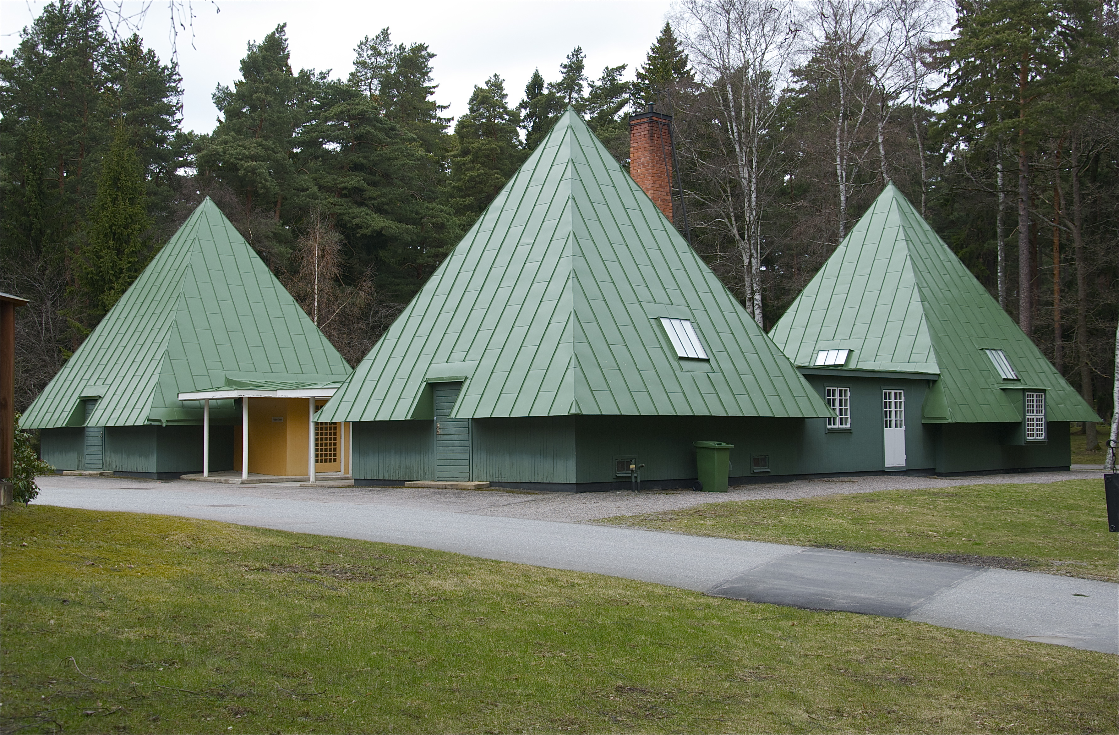 The Visitors Center (The Tallum Pavilion) at Skogskyrkogården. The building was designed by Gunnar Asplund in 1923 as a staff and service building. The building was renovated in 1998 and used as a visitor and service centre. In 1994, Skogskyrkogården (official name in